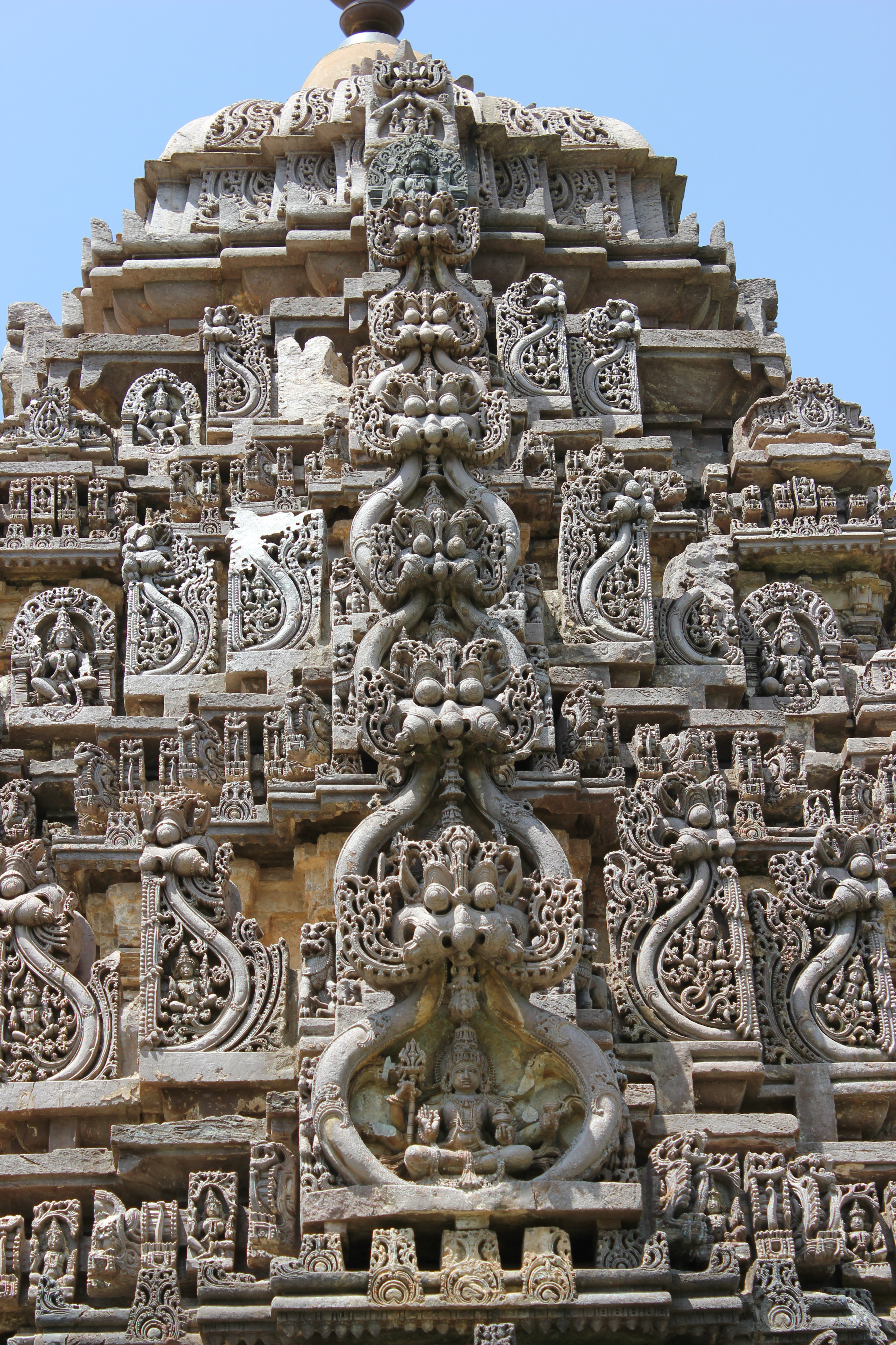 This photograph was taken by self (Dinesh Kannambadi) at the Amrutesvara temple (also spelt Amruteshvara or Amruteshwara) in Amruthapura, Chikkamagaluru district, Karnataka state, India. The temple was built in 1196 C.E. during the rule of the Hoysala King Veera Ballala II.